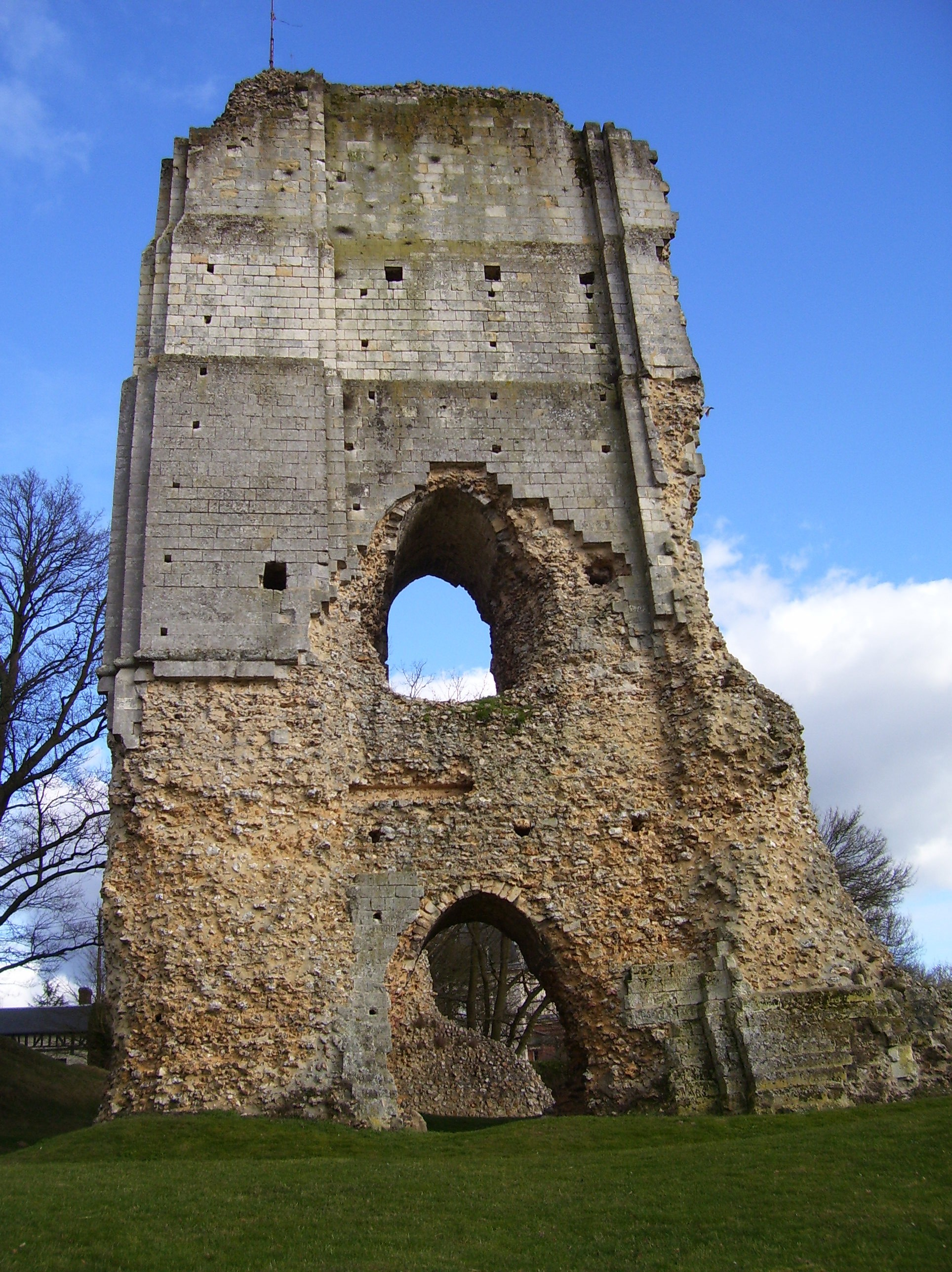 Donjon in Brionne, departement Eure, France, 11th century.